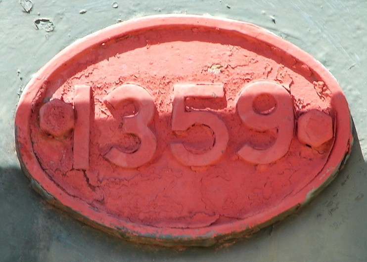 Type ZC tender plate ex Class 7F no. 1359. The tender was delivered with NCCR 7th Class no. 11 in 1913, designated SAR Class 7F no. 1359 in 1925. It is now plinthed with Class 7 no. 970 at Riversdal.